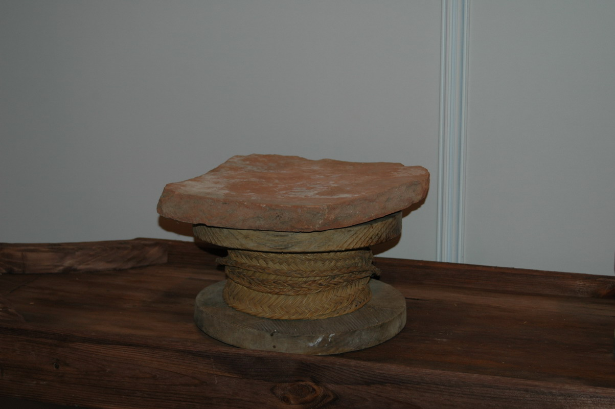 Traditional making of Manchego cheese (?here pressing of the cheese?)